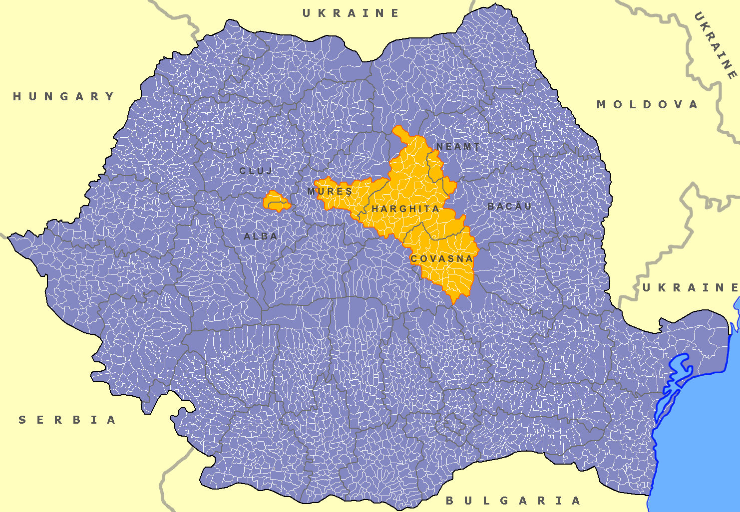 Location of the historical Székely Land in Romania